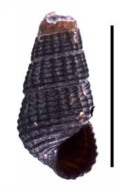 Photo of an apertural view of a holotype shell of Tylomelania hannelorae. Holotype MZB Gst. 12.114, scale bar is 10 mm.